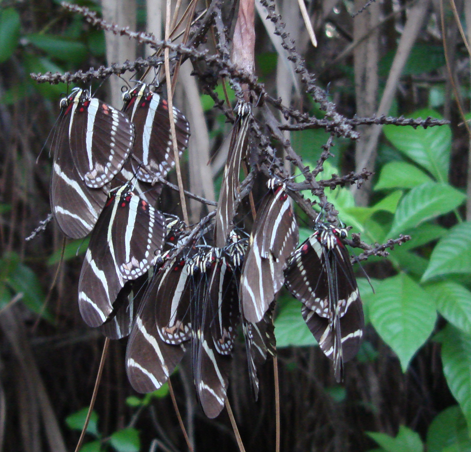 Fourteen Zebra Longwings sleeping on a branch: Heliconius charithonia.